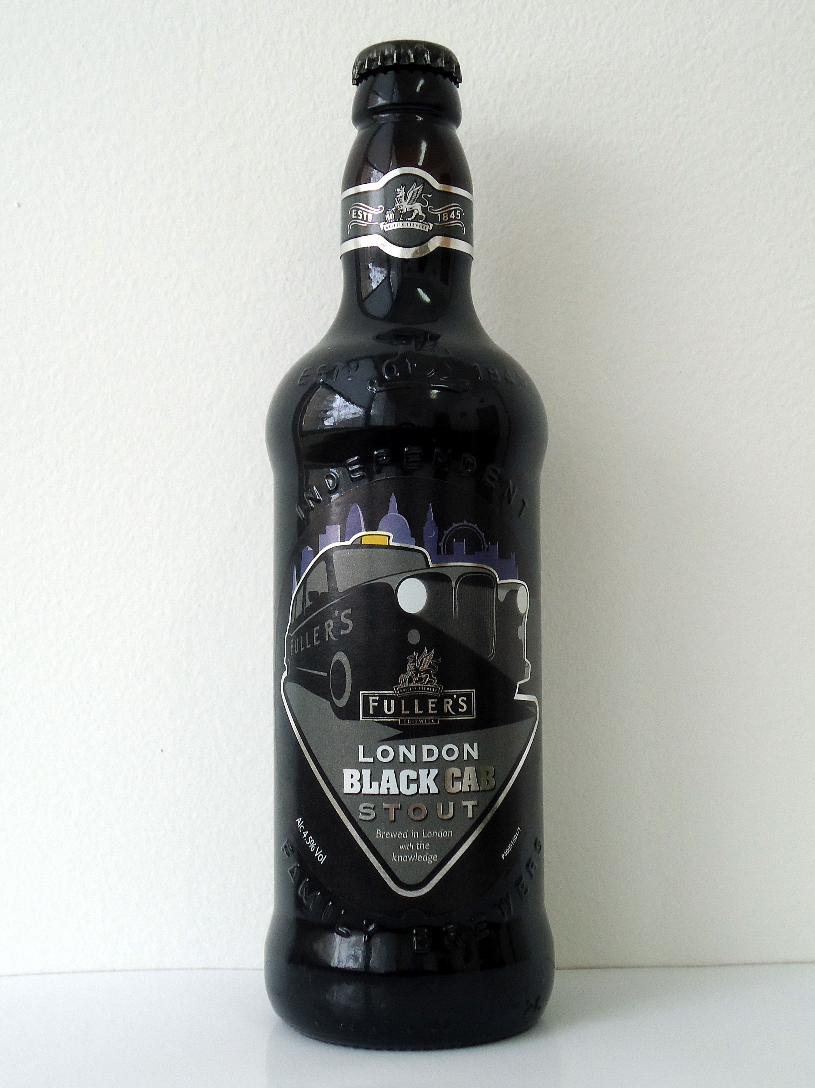 Fuller's London Black Cab Stout